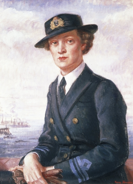 A painting of Sheila McClemans in 1943. At this time she was the Director of the Women's Royal Australian Naval Service.